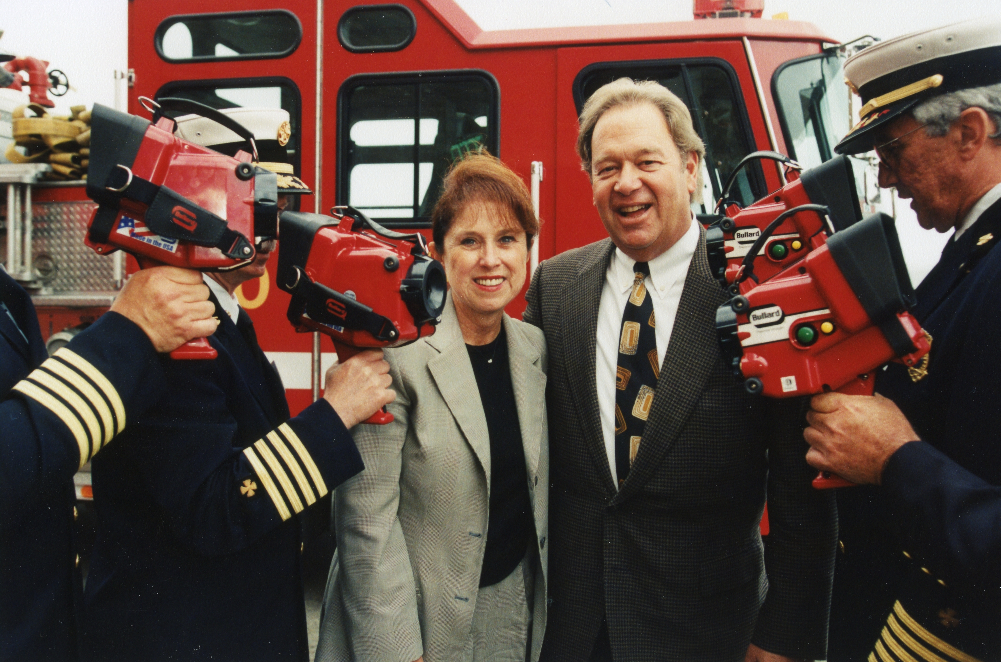 Paul and Phyllis Fireman after donating Bullard Thermal Imaging Cameras to the Brockton City Firefighters